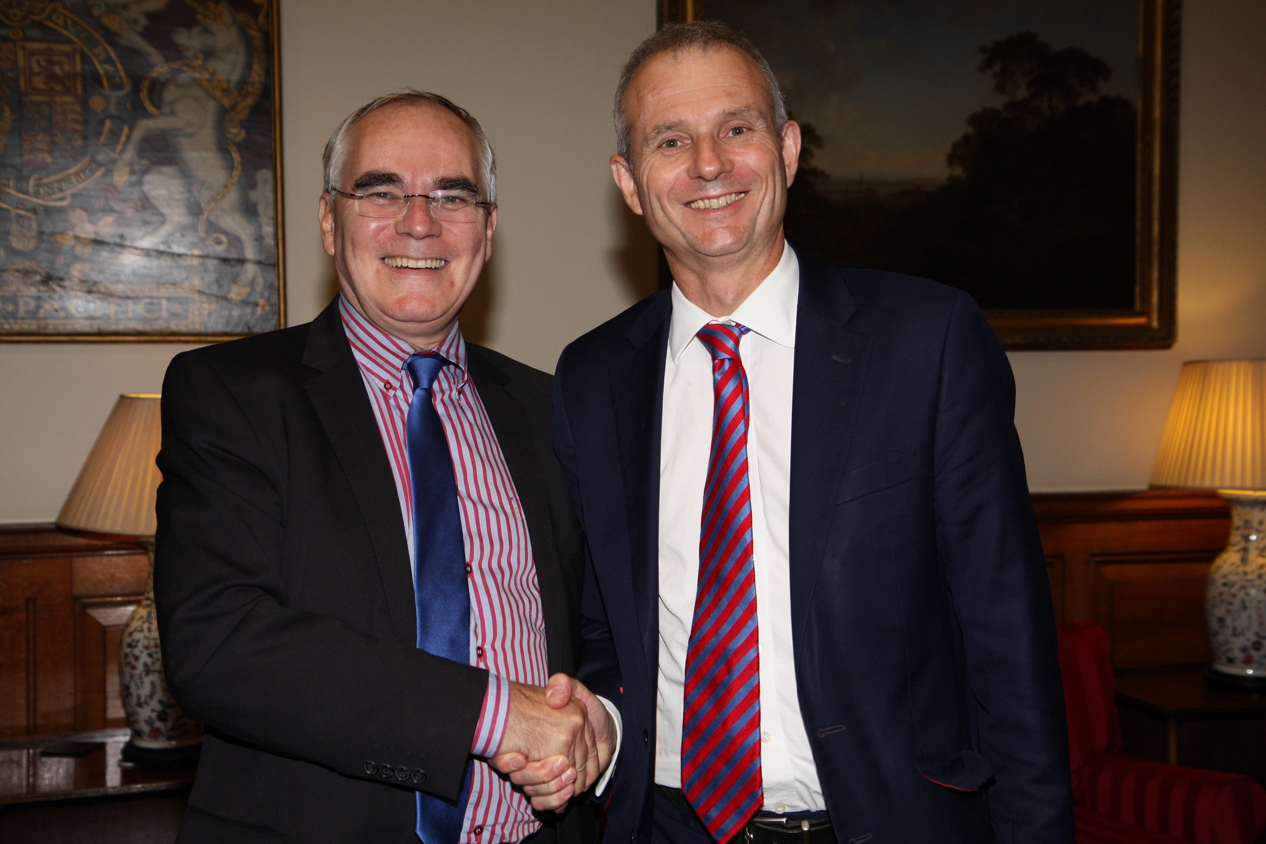 Minister for Europe David Lidington meeting Pierre Andrieu, Co-Chair of the Minsk Group in London, 17 November 2014.